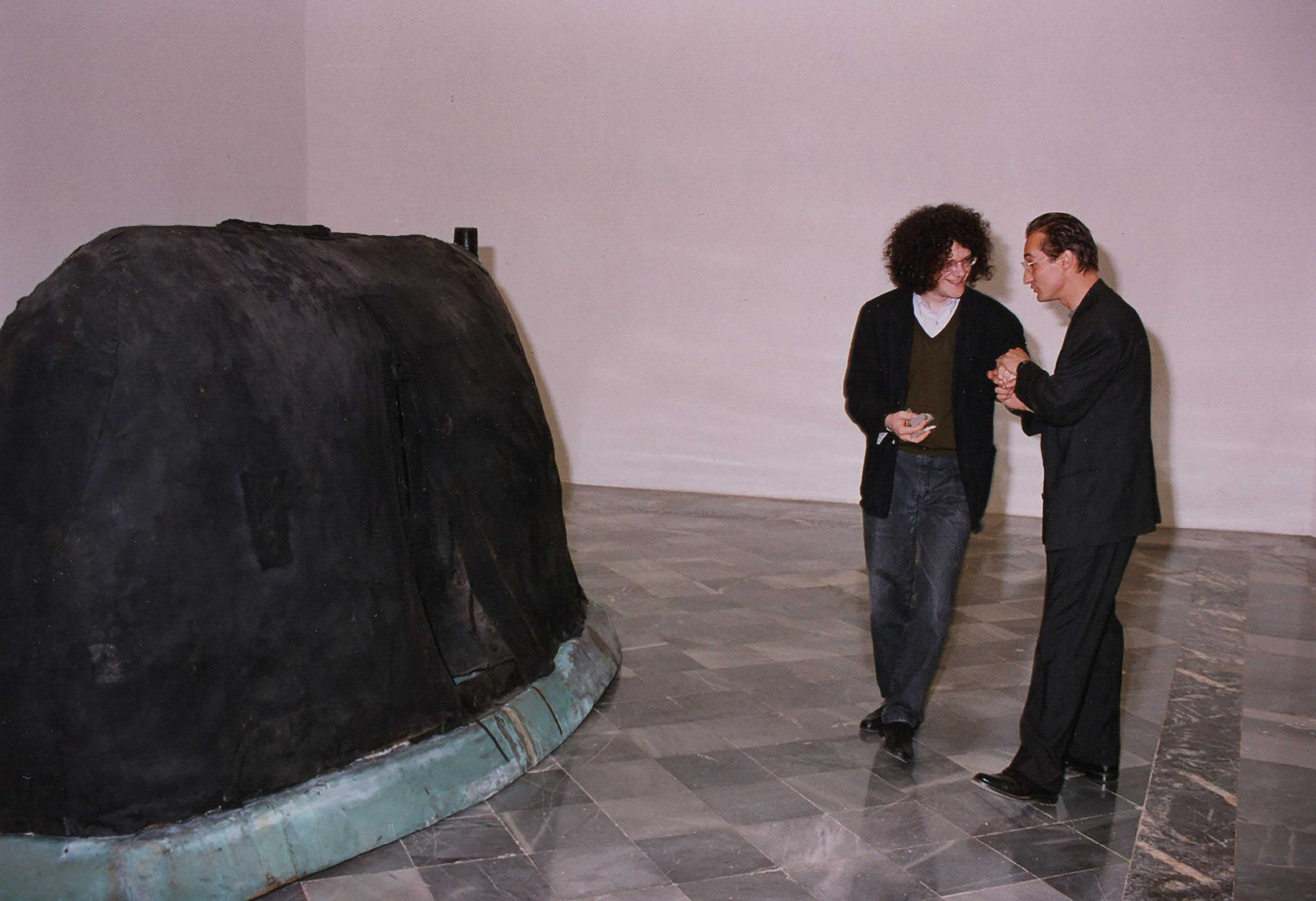 Juan Muñoz & Bart Cassiman next to a sculpture by Thierry de Cordier, Espacio Mental, IVAM, Valencia (1991)